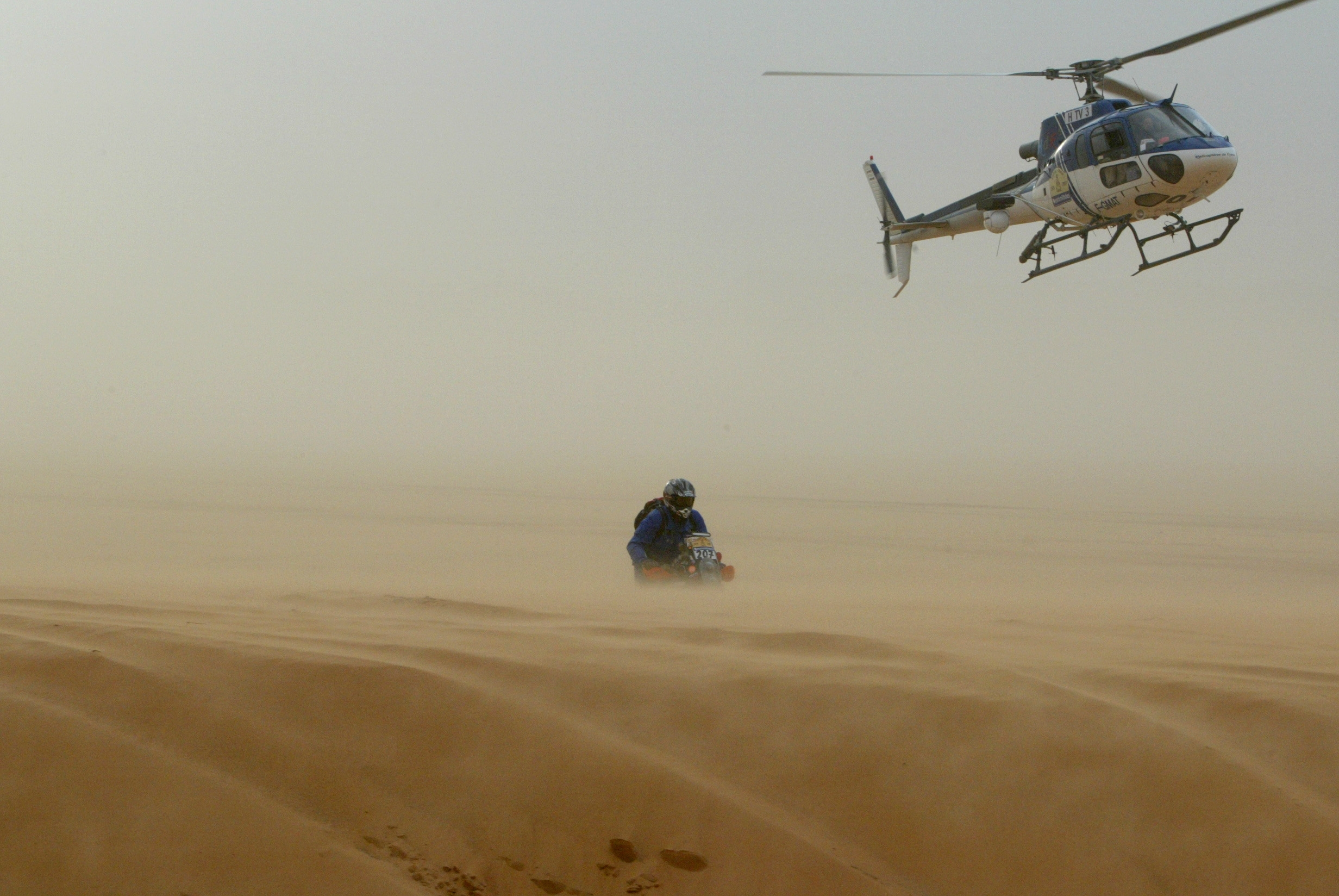 Rally Dakar Argentina-Chile-Argentina